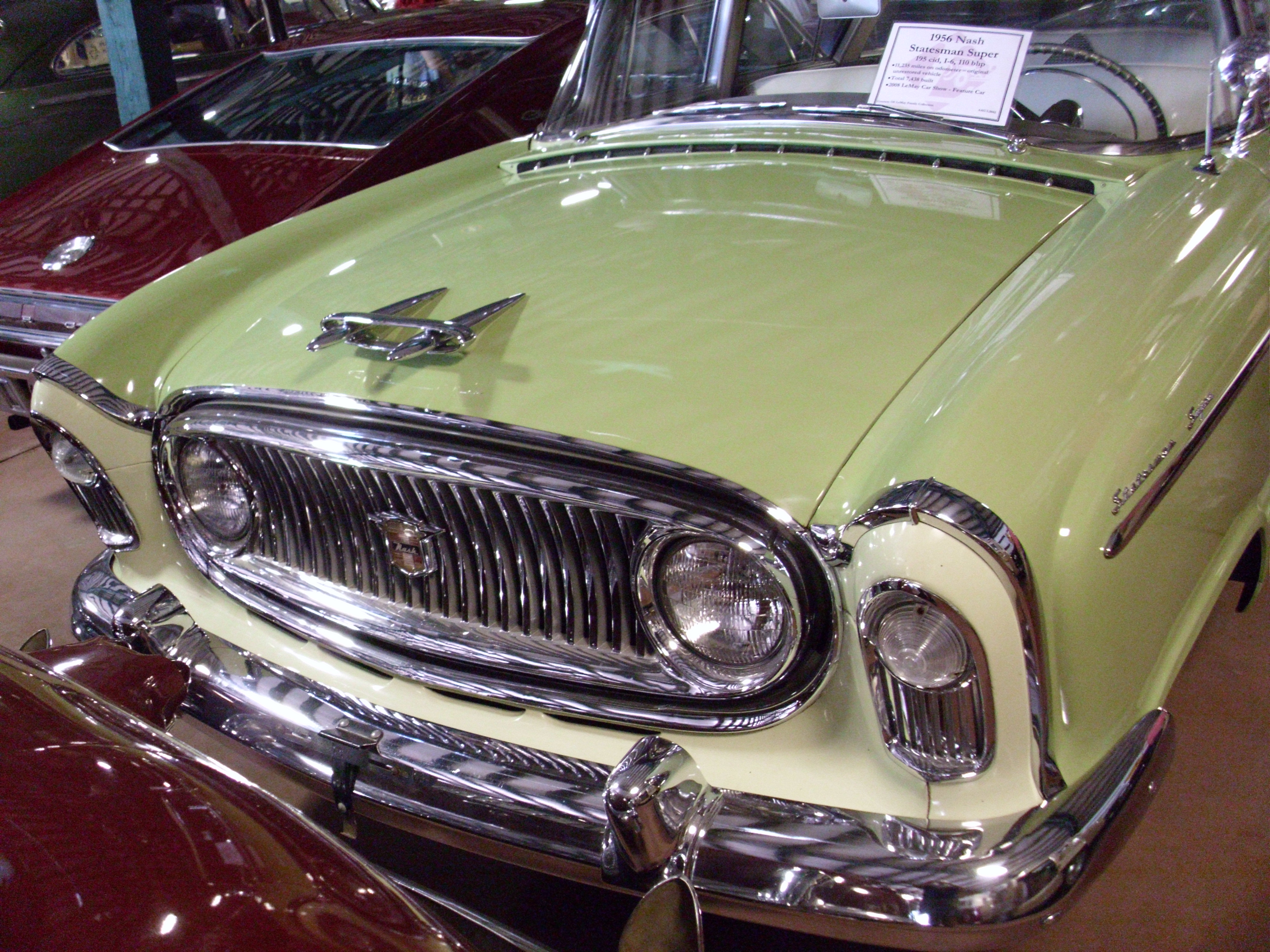 The LeMay Family Collection has a lot of cars. This room was filled, bumper to bumper and just a path between them. All the cars were nice, either restored or excellent original.